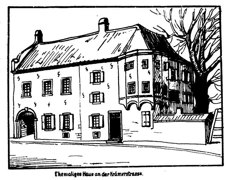 Paul Sültenfuß (1872-1937), Das Düsseldorfer Wohnhaus bis zur Mitte des 19. Jahrhunderts, (Diss. TH Aachen), 1922, Abb. 73, Ehemaliges Haus in der Krämerstraße.jpg